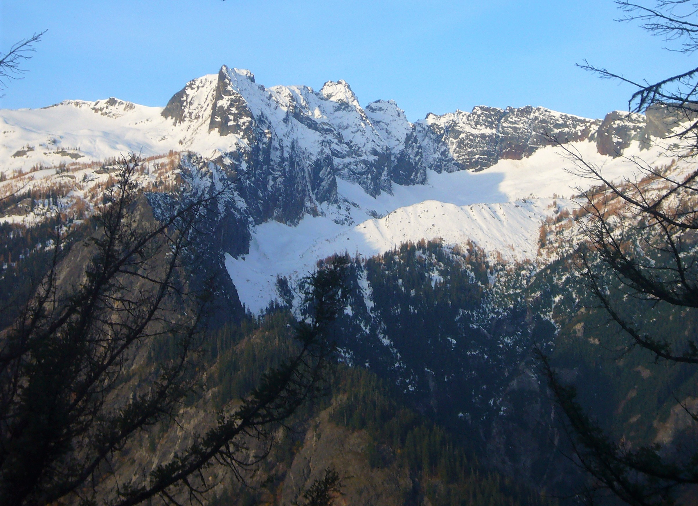 Brahma Peak from Carne Mountain trail